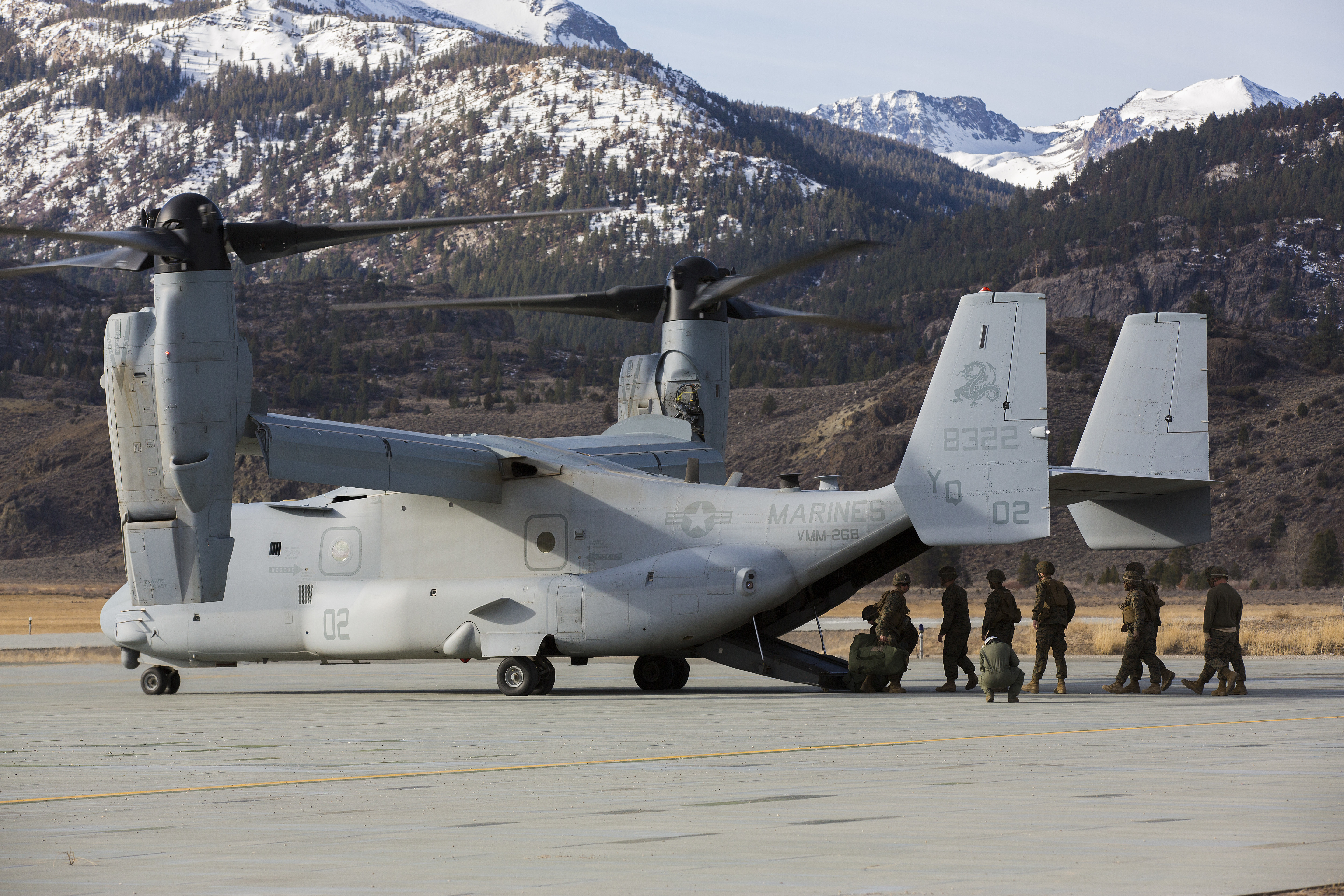 U.S. Marines with Combat Logistics Battalion 26, 2nd Marine Logistics Group, load water and meals onto a V-22 Osprey at the U.S. Marine Corps Mountain Warfare Training Center (MWTC) Bridgeport, Calif., Feb. 2, 2015. MWTC trains Marines across the warfighting functions for operations in mountainous, high altitude, and cold weather environments in order to enhance a unit's ability to shoot, move, communicate, sustain, and survive in mountainous regions of the world. (U.S. Marine Corps photo by Sgt. Anthony L. Ortiz/Released)